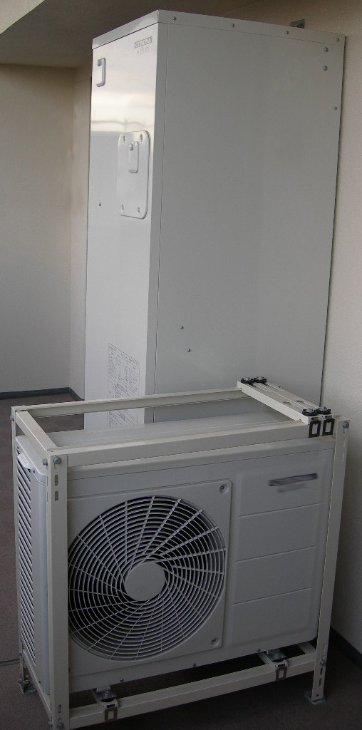 Transferred from Japanese edition Wikipedia 画像:エコキュート.jpg photo taken and up loaded originally by User:Uri